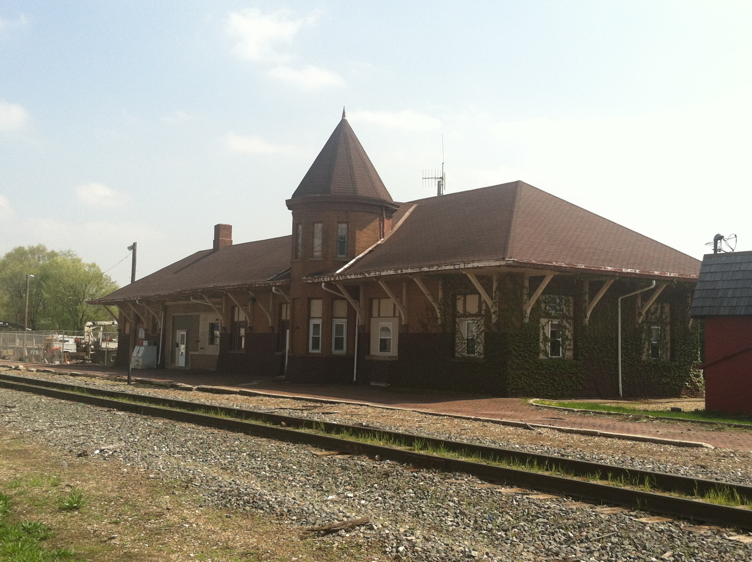 On CSX's New Rock Subdivision, and used by them for MOW.